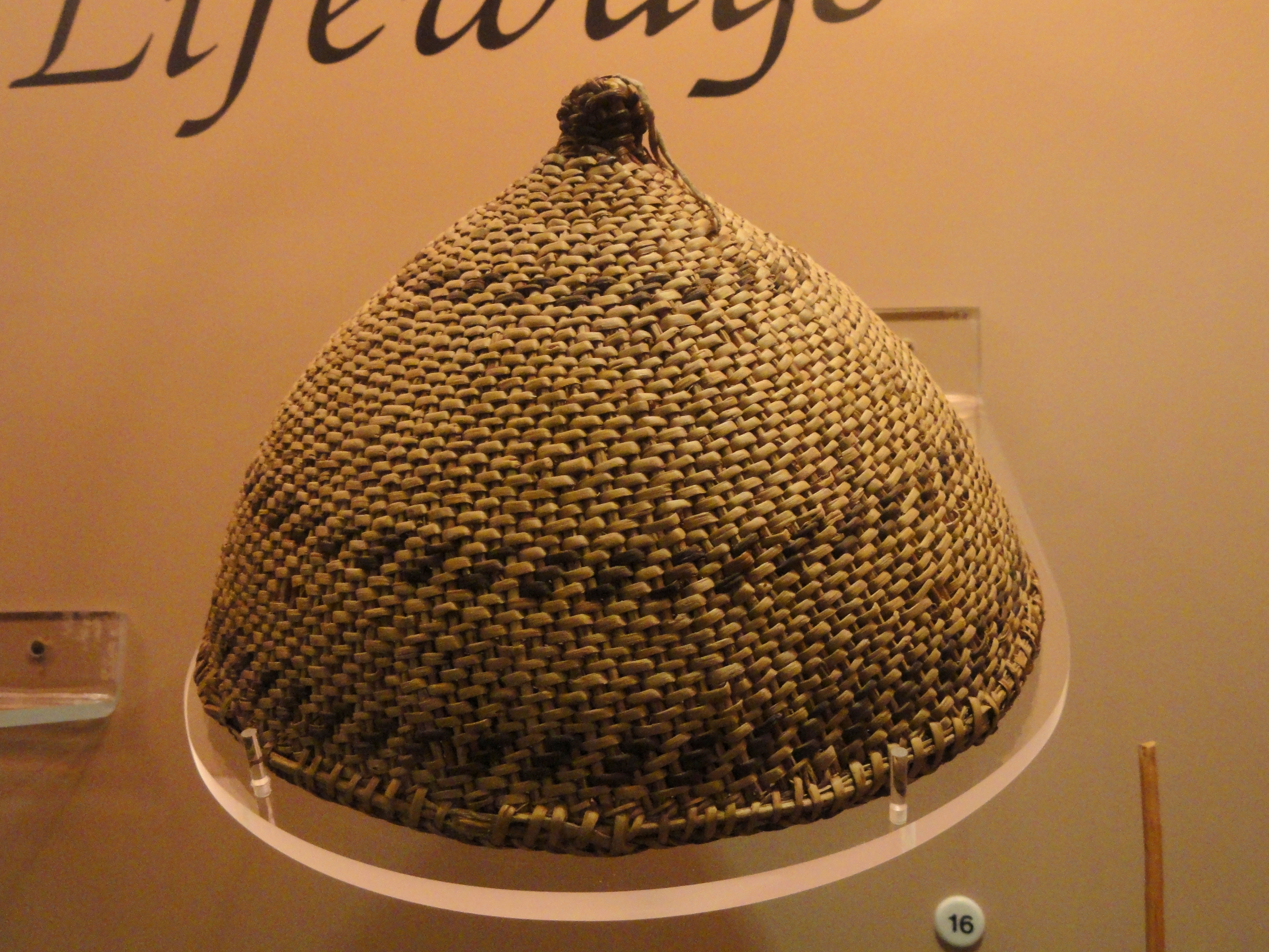 Hat, Southern Paiute, collected 1876. Exhibit from the Native American Collection, Peabody Museum, Harvard University, Cambridge, Massachusetts, USA. Photography was permitted without restriction; exhibit is old enough so that it is in the public domain.